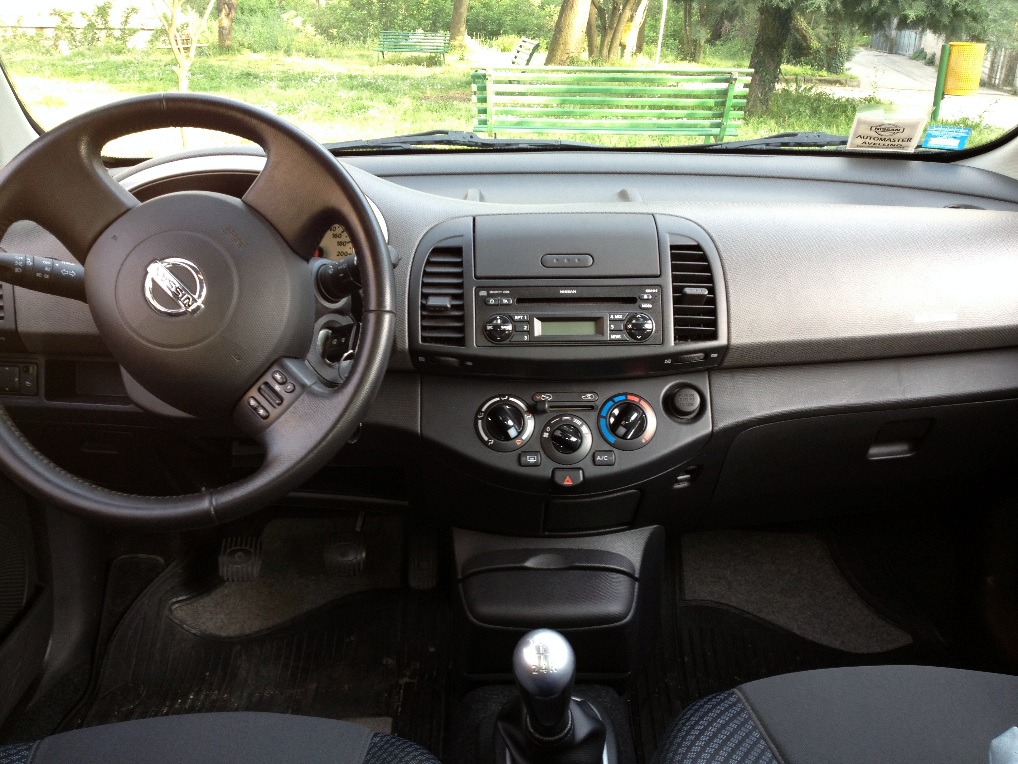 Nissan Micra K12 interior